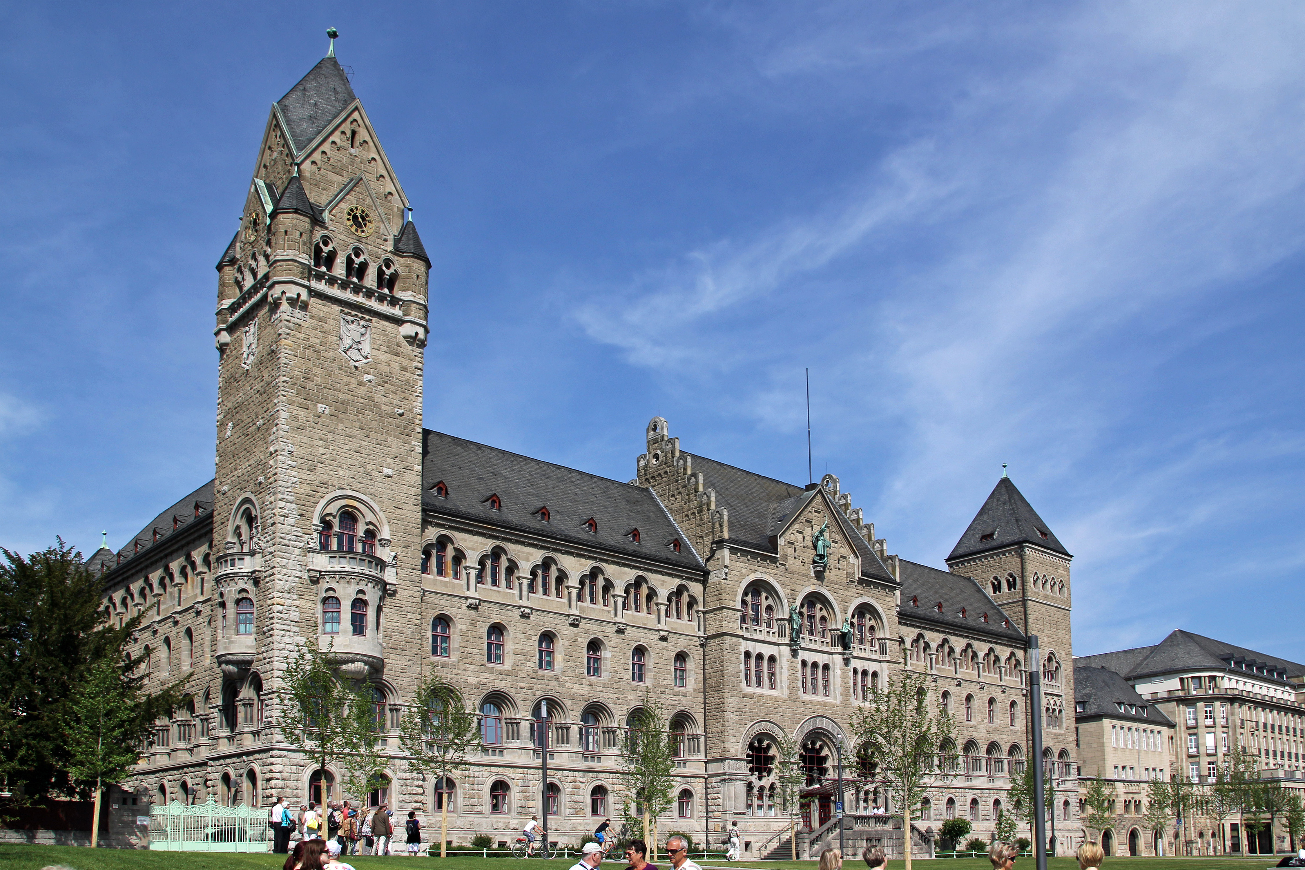 Rhine park in Koblenz